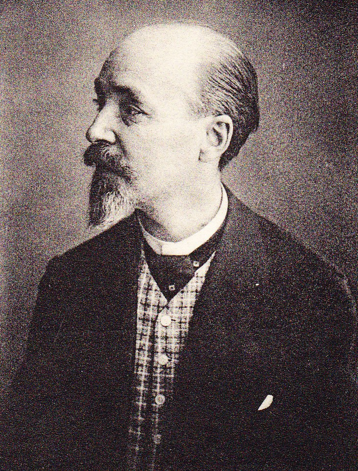 Max Elskamp (1862-1931) - Belgian poet, symbolists; writing in French language.